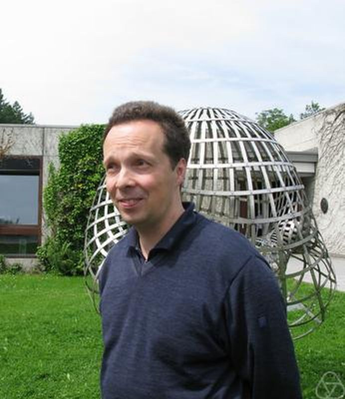 Christoph Schweigert, Oberwolfach 2010